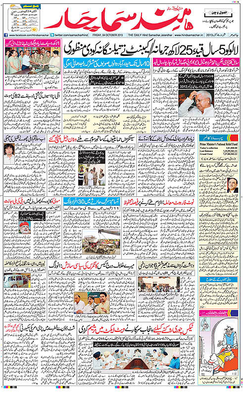 Hind Samachar, Jalandhar (Oct04,2013)